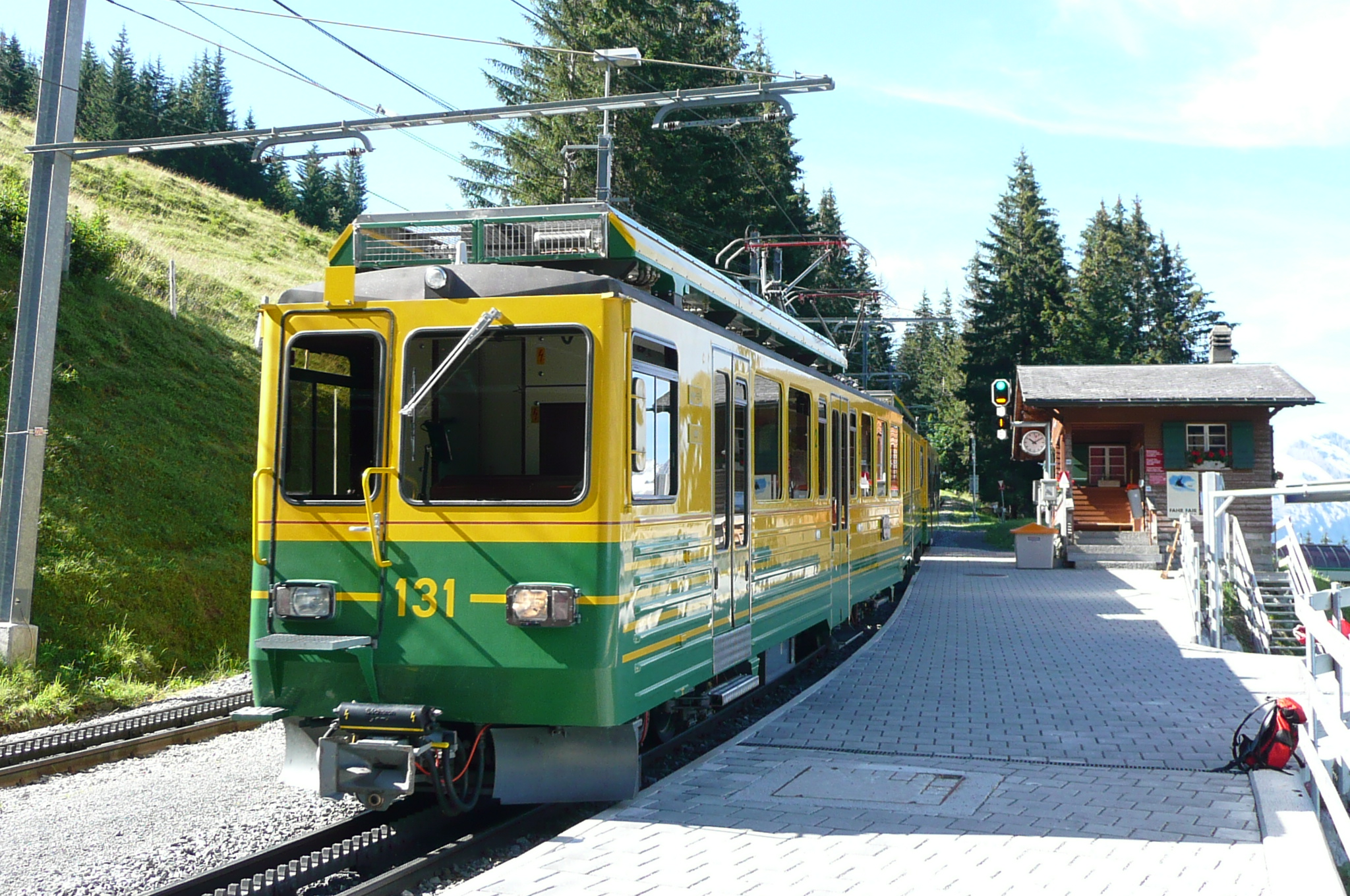 Wengernalp rack EMU BDhe 4/8 131, coming from Lauterbrunnen, is about to leave the passing loop of Allmend stop towards Kleine Scheidegg